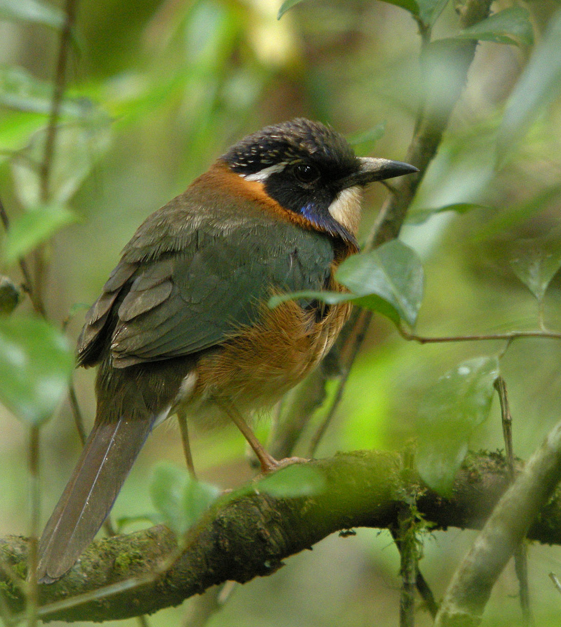 Digiscoping with Swarovski ATM 80 HD 30 X, Coolpix P5100 (Adapter DCB)